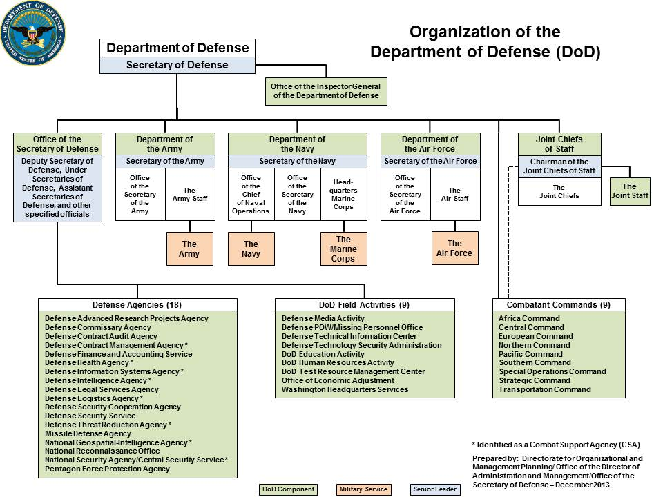 Organizations and Functions of the Department of Defense The Department of Defense (DoD) is responsible for providing the military forces needed to deter war and protect the security of the United States (U.S.). The major elements of these forces are the Army, Navy, Air Force, and Marine Corps. The President is the Commander-in-Chief, while the Secretary of Defense exercises authority, direction, and control over the Department. This includes the Office of the Secretary of Defense, Organization of the Chairman of the Joint Chiefs of Staff, the three Military Departments, the Combatant Commands, the Office of the Inspector General, 17 Defense Agencies, 10 DoD Field Activities, and other organizations, such as the National Guard Bureau (NGB) and the Joint Improvised Explosive Device Defeat Organization (JIEDDO).